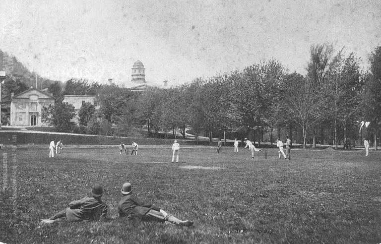 MP-0000.74 Cricket match, McGill campus, Montreal, QC, about 1890 Anonyme - Anonymous About 1890, 19th century Notman photographic Archives - McCord Museum MP-0000.74 Match de cricket, campus de l'Université McGill, Montréal, QC, vers 1890 Anonyme - Anonymous Vers 1890, 19e siècle Archives photographiques Notman - Musée McCord To see the image file on the McCord Museum website, click on the following link: Pour voir la fiche descriptive de cette photographie sur le site Web du Musée McCord, cliquer le lien suivant